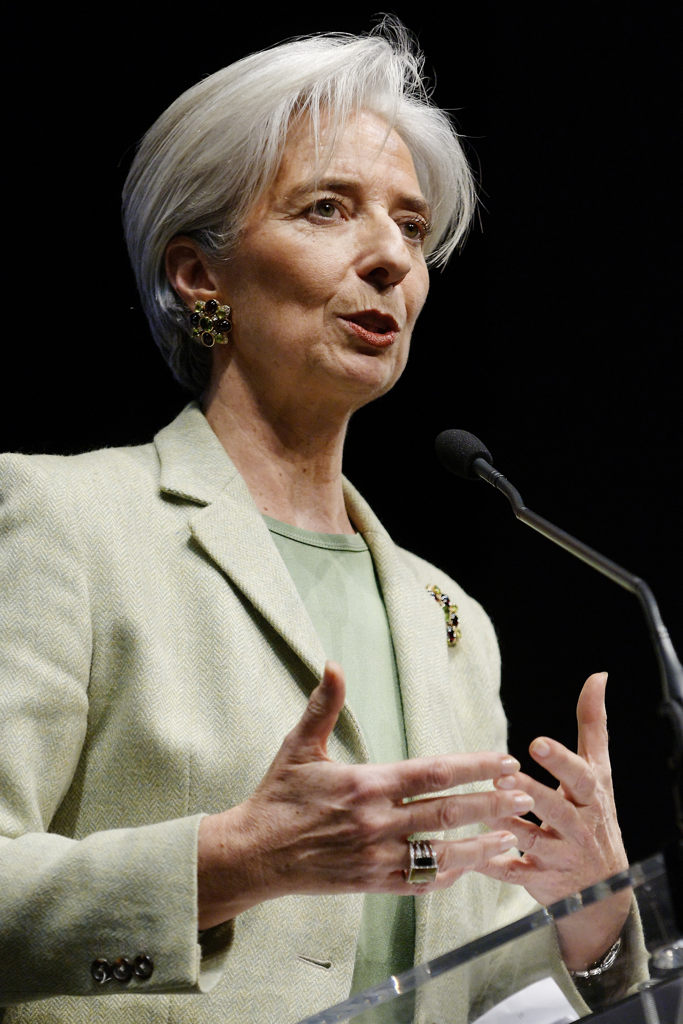 Christine Lagarde at a UMP rally for the 2010 French regional elections campaign in Issy-les-Moulineaux.